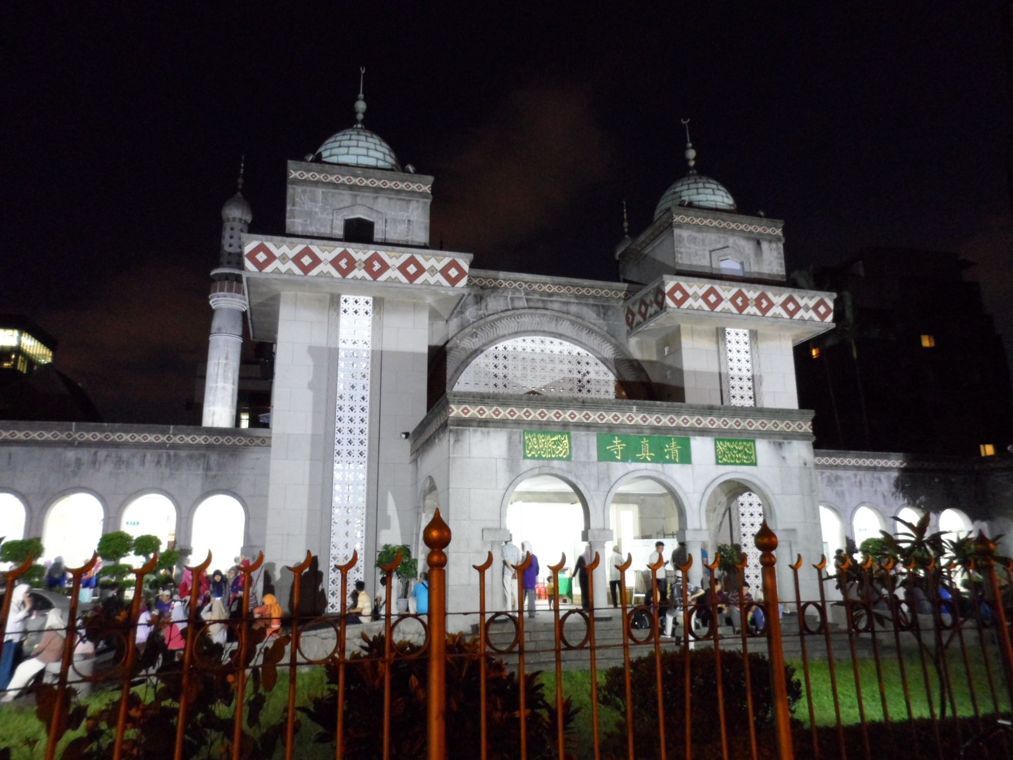 Taipei Grand Mosque, Da'an District, Taipei City, Taiwan